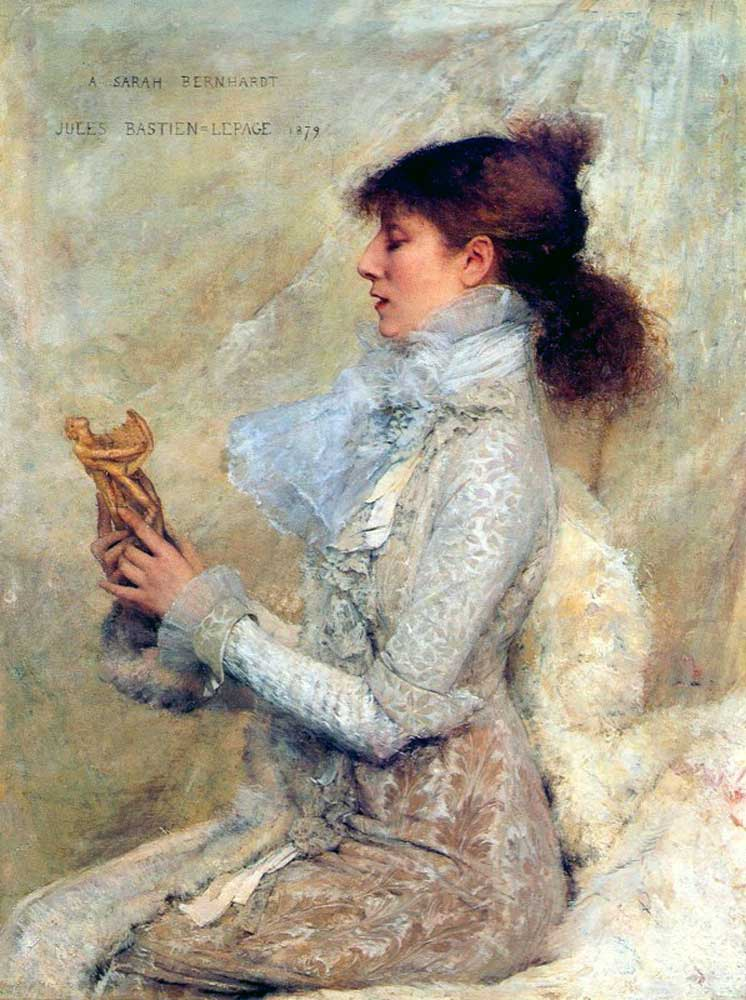 Portrait of Sarah Bernhardt (1844-1923)